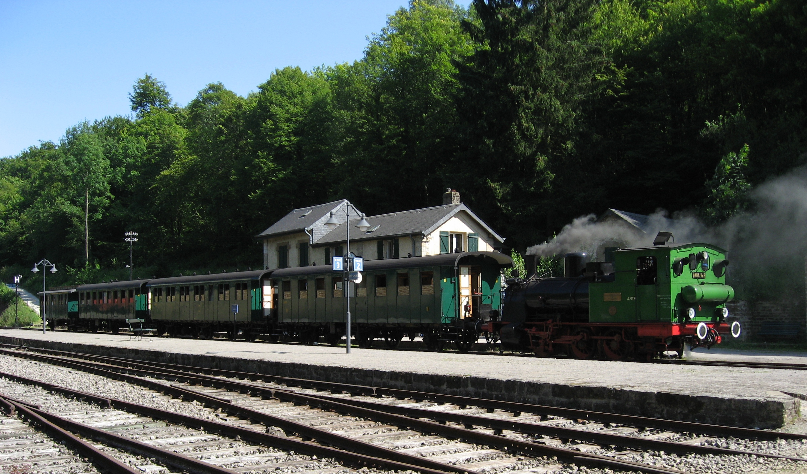 Train 1900 with steam loco "Anna Nr. 9" ready for departure from Fond de Gras station.